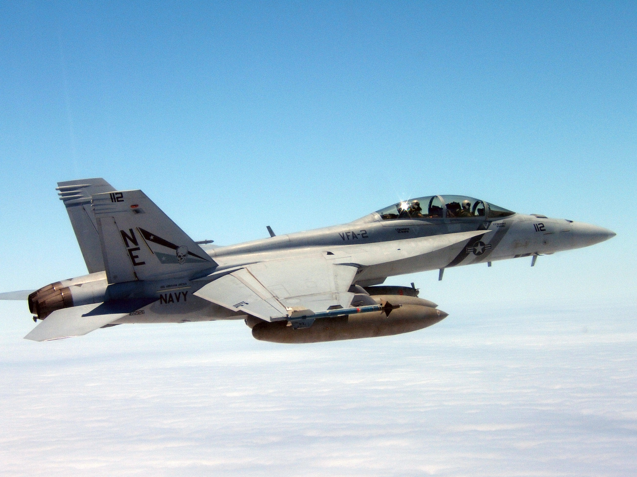 An aerial view of a US Navy (USN) F/A-18F Super Hornet fighter aircraft, Strike Fighter Squadron 2 (VFA-2), Bounty Hunters, Naval Air Station Oceana, Virginia (VA), conducts a training flight over the Pacific Ocean near the coast Southern California. VFA-2 is assigned to Carrier Air Wing 2 (CVW-2), currently embarked aboard the Nimitz Class Aircraft Carrier USS ABRAHAM LINCOLN (CVN 72). The LINCOLN is at sea conducting readiness training in support of the Navy's Fleet Response Plan (FRP).